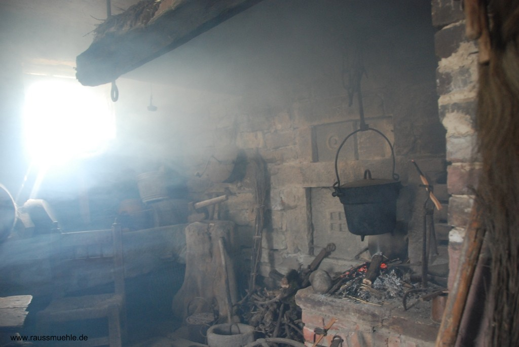 medieval kitchen - part of the museum at the Raussmuehle nr. Eppingen, Germany